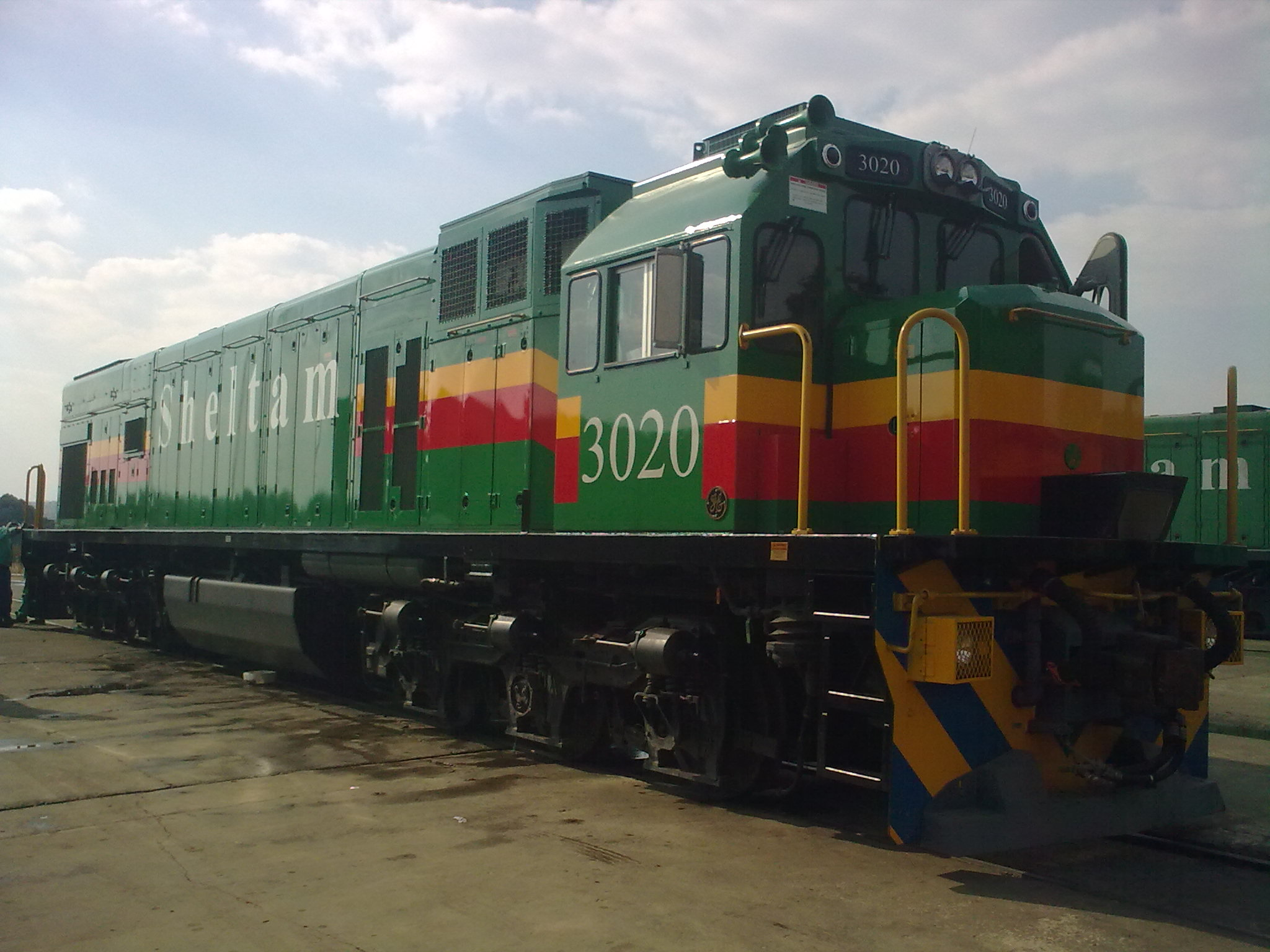 Sheltam's GE-built C30 diesel-electric locomotive - GE (Brazil) 2008 built